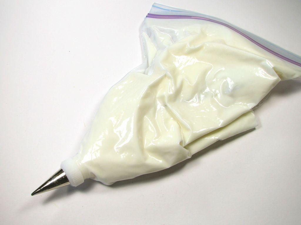 pastry bag